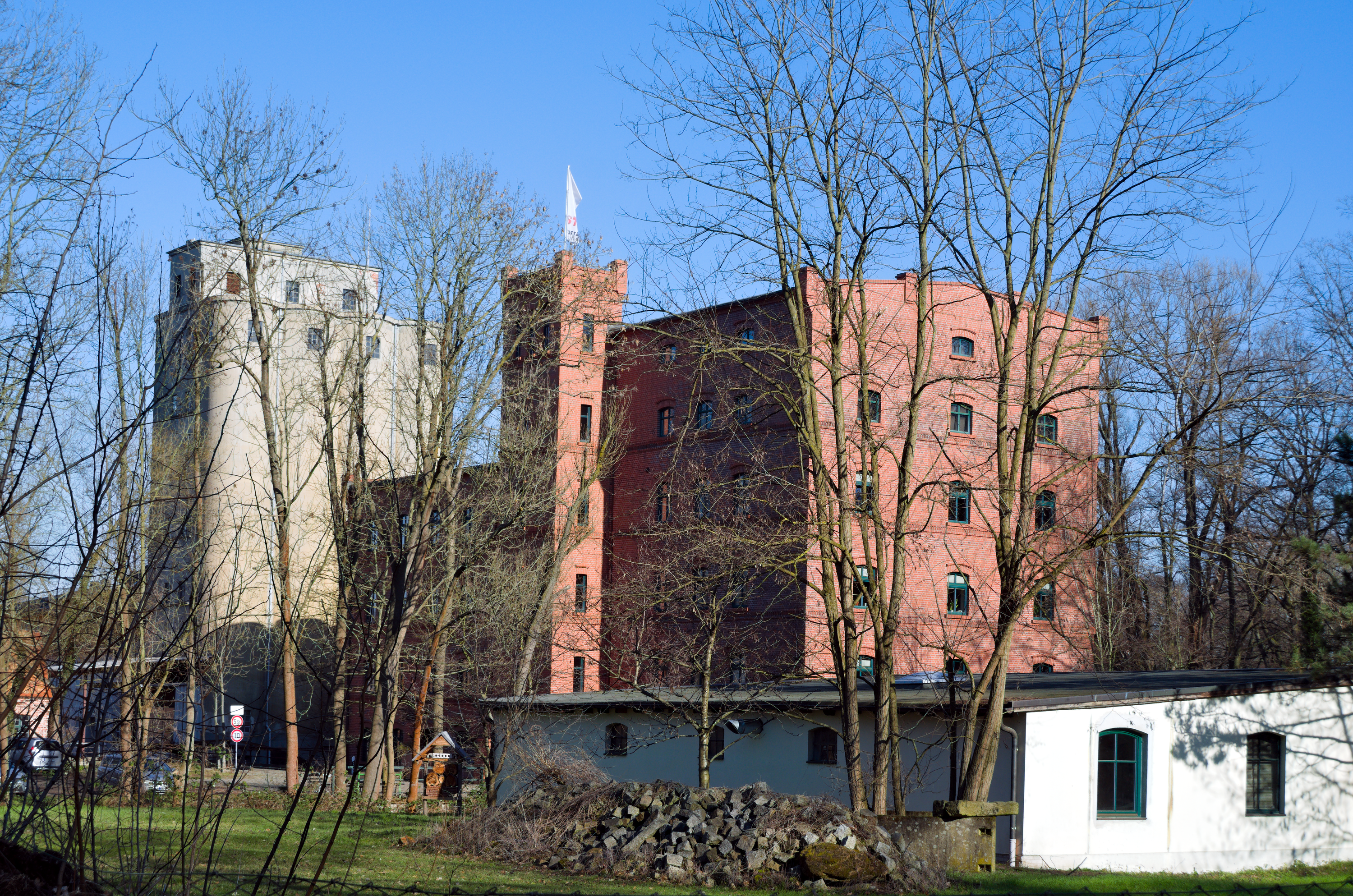 Old grain mill (red brick building) and silo of Große Mühle Madlow, postal address Große Mühle 1. This view is from Kiekebuscher Weg.